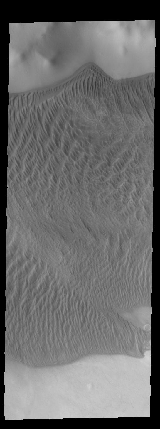 This VIS image shows part of the large sand sheet with surface dune forms on the floor of Charlier Crater in Terra Sirenum. Orbit Number: 67288 Latitude: -68.1351 Longitude: 191.161 Instrument: VIS Captured: 2017-02-13 09:50 Please see the THEMIS Data Citation Note for details on crediting THEMIS images. NASA's Jet Propulsion Laboratory manages the 2001 Mars Odyssey mission for NASA's Science Mission Directorate, Washington, D.C. The Thermal Emission Imaging System (THEMIS) was developed by Arizona State University, Tempe, in collaboration with Raytheon Santa Barbara Remote Sensing. The THEMIS investigation is led by Dr. Philip Christensen at Arizona State University. Lockheed Martin Astronautics, Denver, is the prime contractor for the Odyssey project, and developed and built the orbiter. Mission operations are conducted jointly from Lockheed Martin and from JPL, a division of the California Institute of Technology in Pasadena.